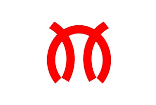 Flag of Miura Kanagawa.